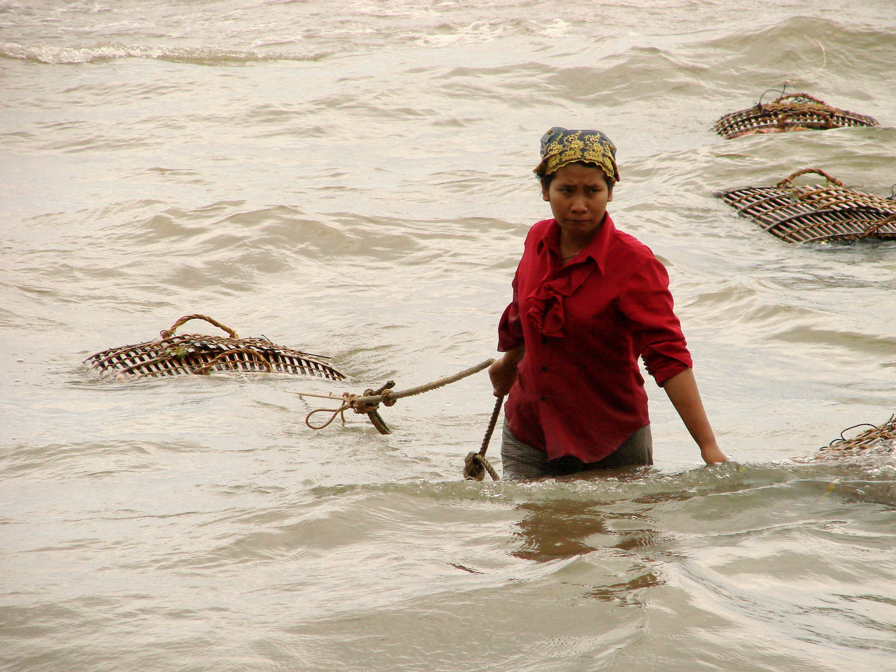 Bringing in a seafood catch to the market at Kep, Cambodia. May 2009.